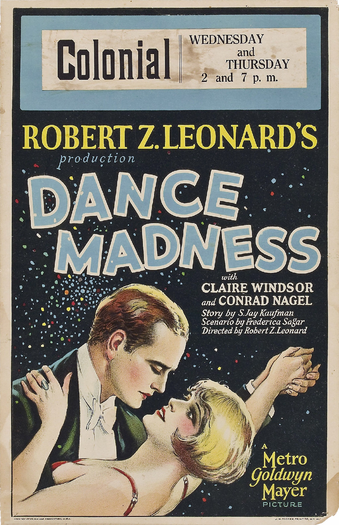 Window poster for the American film Dance Madness (1926). There are no copyright marks on the item. At lower left is Country of origin and production USA. At lower right is Tooker Print Co., NY, NY.-they printed the poster.